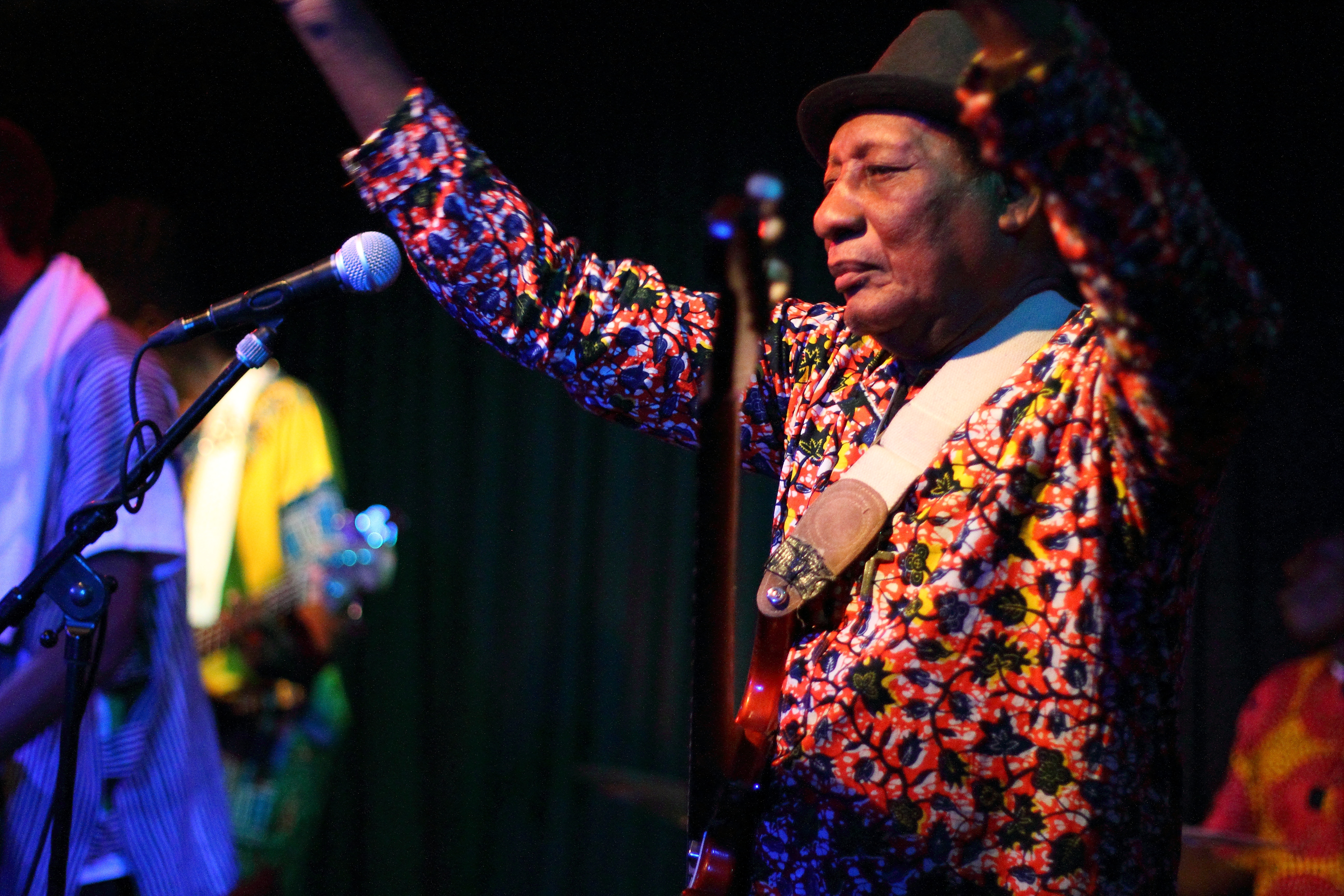 Ebo Taylor & Band at Club W71, Weikersheim, february 2017.